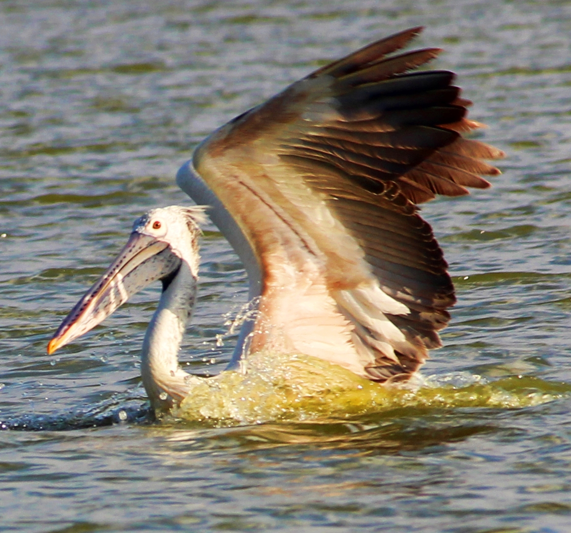 Kelambakkam Backwaters is one of the most important bird watching spots in Chennai. Lot of bird variety are found here throughout the year. Captured this Spot Billed Pelican while it was just about to land in water after flight.